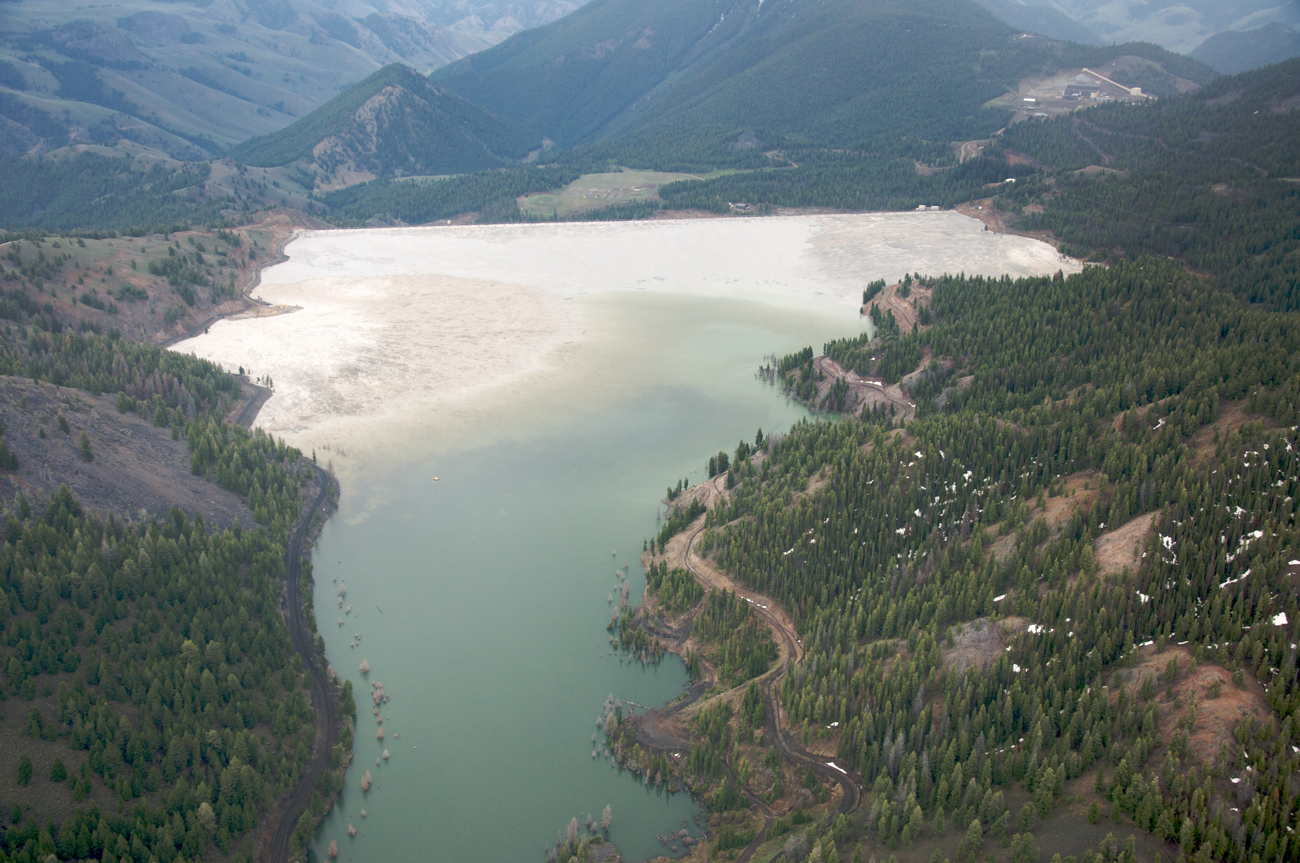 Aerial photograph of Thompson Creek Mine tailing pond in Idaho.